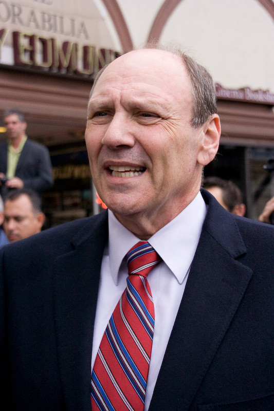 Bill Handel addressing a crowd of fans